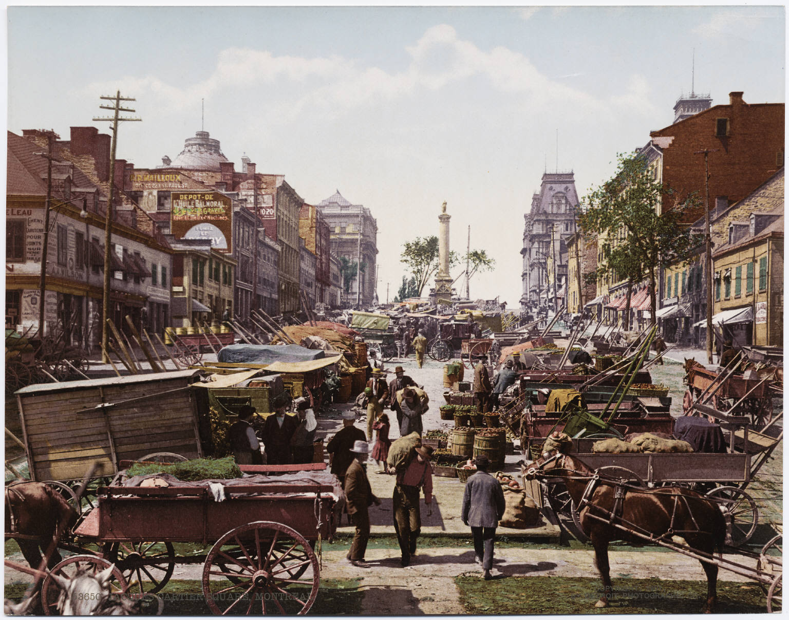 A photochrom postcard published by the Detroit Photographic Company.